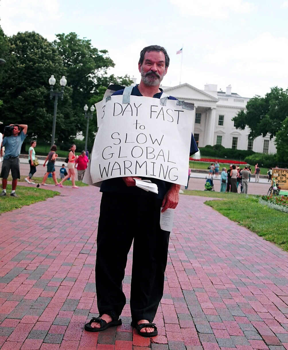 Fast to Stop Global Warming . Lafayette Park across from the White House . NW WDC . Sundown, 5 July - Sundown, 8 July 2005 This picture was taken at around 3:15 PM on Friday, 8 July 2005 Elvert Xavier Barnes Protest Photography02.15.Street.WDC.8jul05